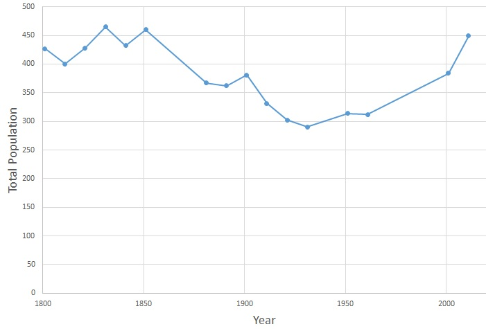 Total Population of Rickinghall Inferior Civil Parish , Suffolk as reported by the Census of Population from 1801 to 2011